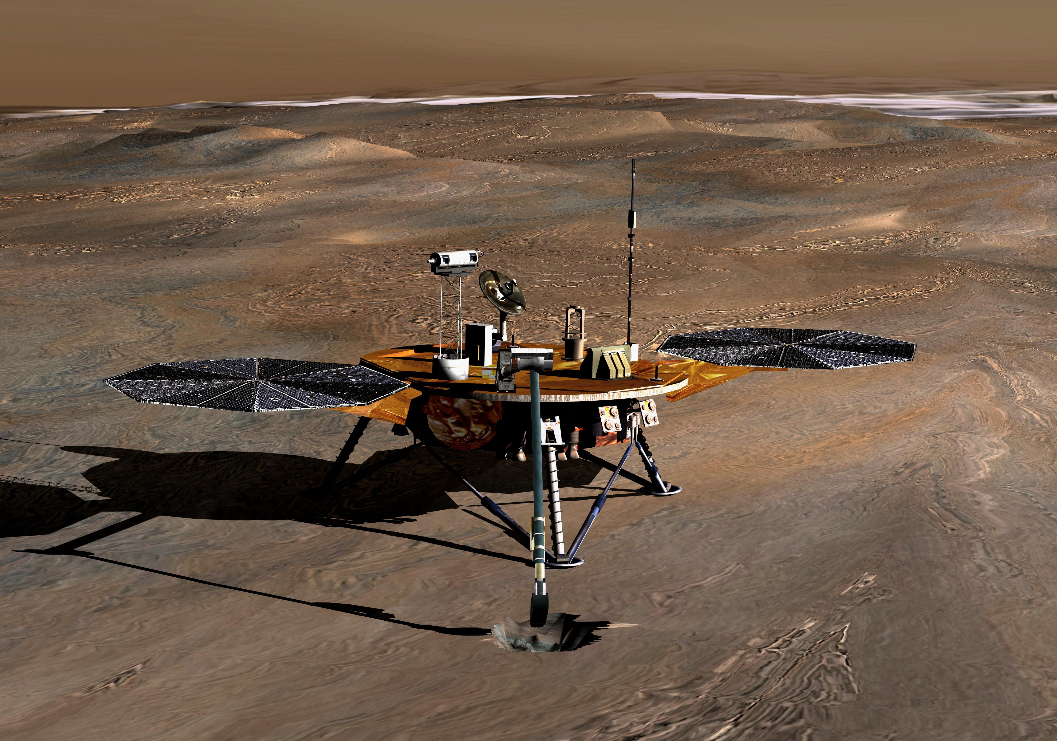 The Phoenix Mission, slated for launch in August 2007, is the first project in NASA's openly competed program of Mars Scout missions. The mission's plan is to land in icy soils near the north polar permanent ice cap of Mars and explore the history of the water in these soils and any associated rocks, while monitoring polar climate. The spacecraft and its instruments are designed to analyze samples collected from up to a half-meter (20 inches) deep by a robotic arm. The arm extends forward in this artist's concept of the lander on Mars. As planned, the Phoenix lander, which landed May 25, 2008 23:53 UTC, ended communications in November 2008, about six months after landing, when its solar panels ceased operating in the dark Martian winter.